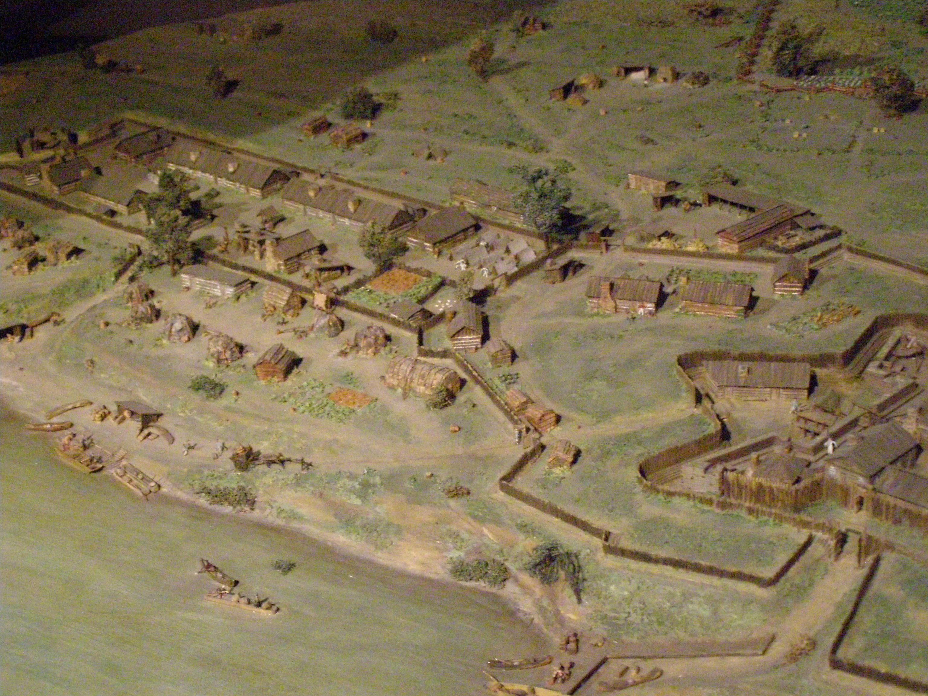 Model of Fort Duquesne in Fort Pitt Museum, Pittsburgh, PA